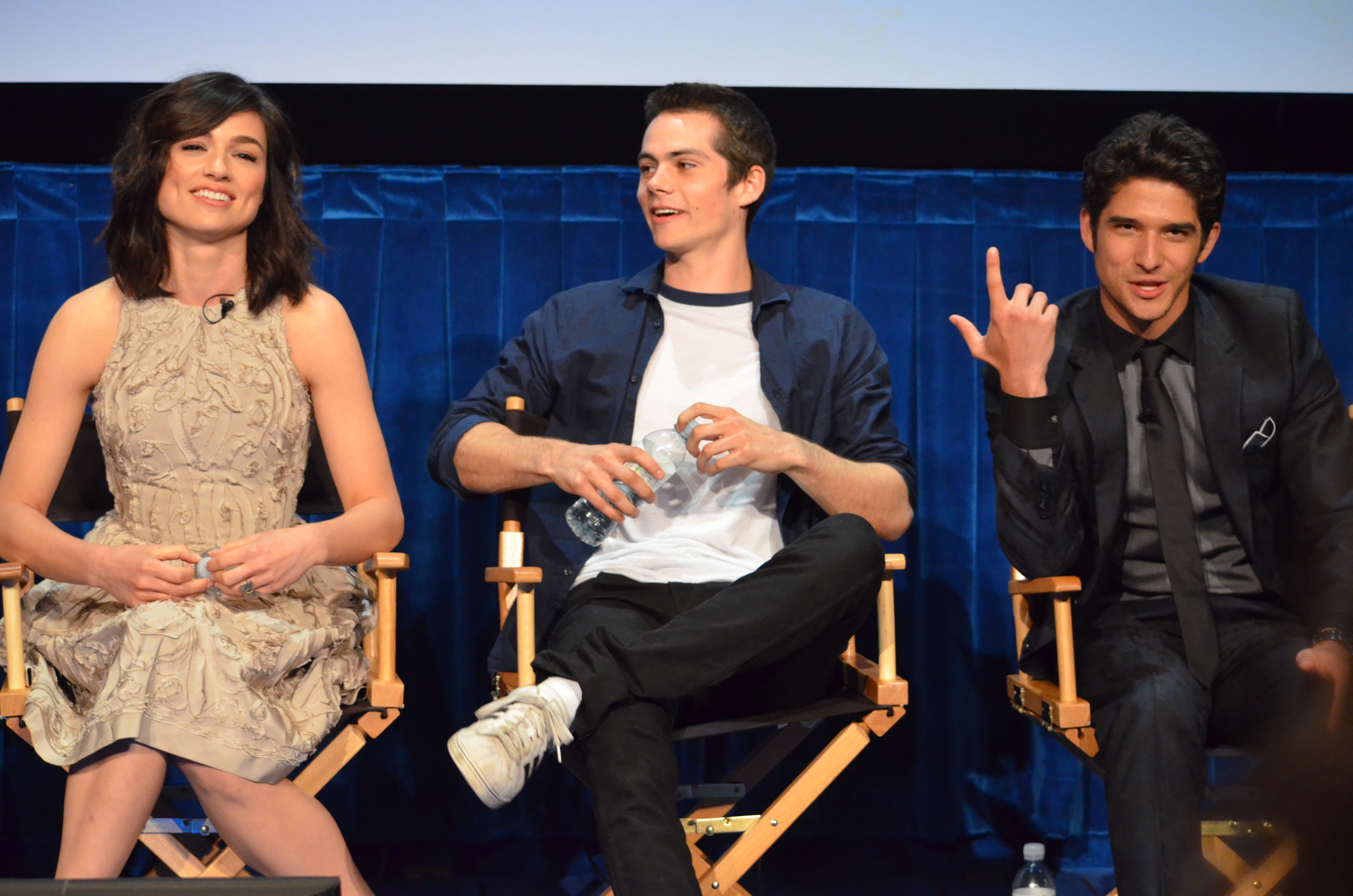 Crystal Reed & Dylan O'Brien & Tyler Posey On Stage @ Paley: Teen Wolf 2012.